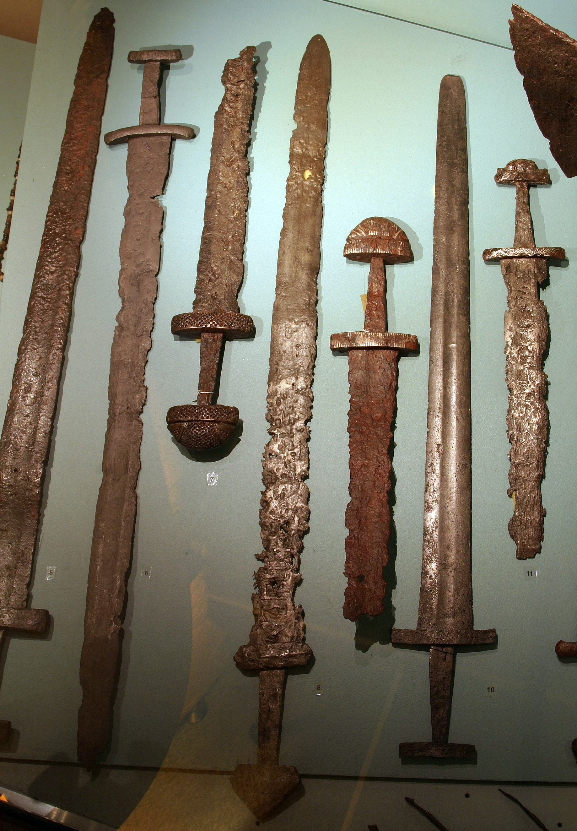 MOTIV: Sverd (i midten) PERIODE: Vikingtid UTSTILLINGSNR.: 8 FUNNSTAD: Sæbø, Hoprekstad KOMMUNE: Vik Seven Viking Age swords on display in Bergen Museum (numbered 5 to 11 in the display case). (no. 7) the third sword from the left is a Petersen type E sword found at Trondheim.[1] (no. 8) The long sword in the middle is a Petersen type C sword found in Sæbø, Hoprekstad, Vik i Sogn municipality, Sogn og Fjordane county, Norway.